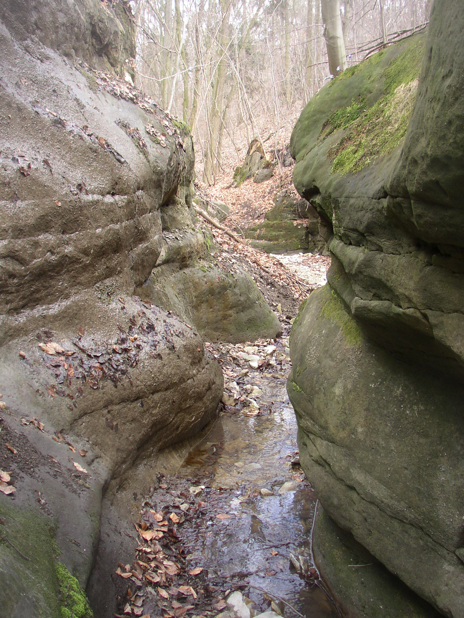 Smečenská rokle natural monument near Smečno, Kladno District, Czech Republic.